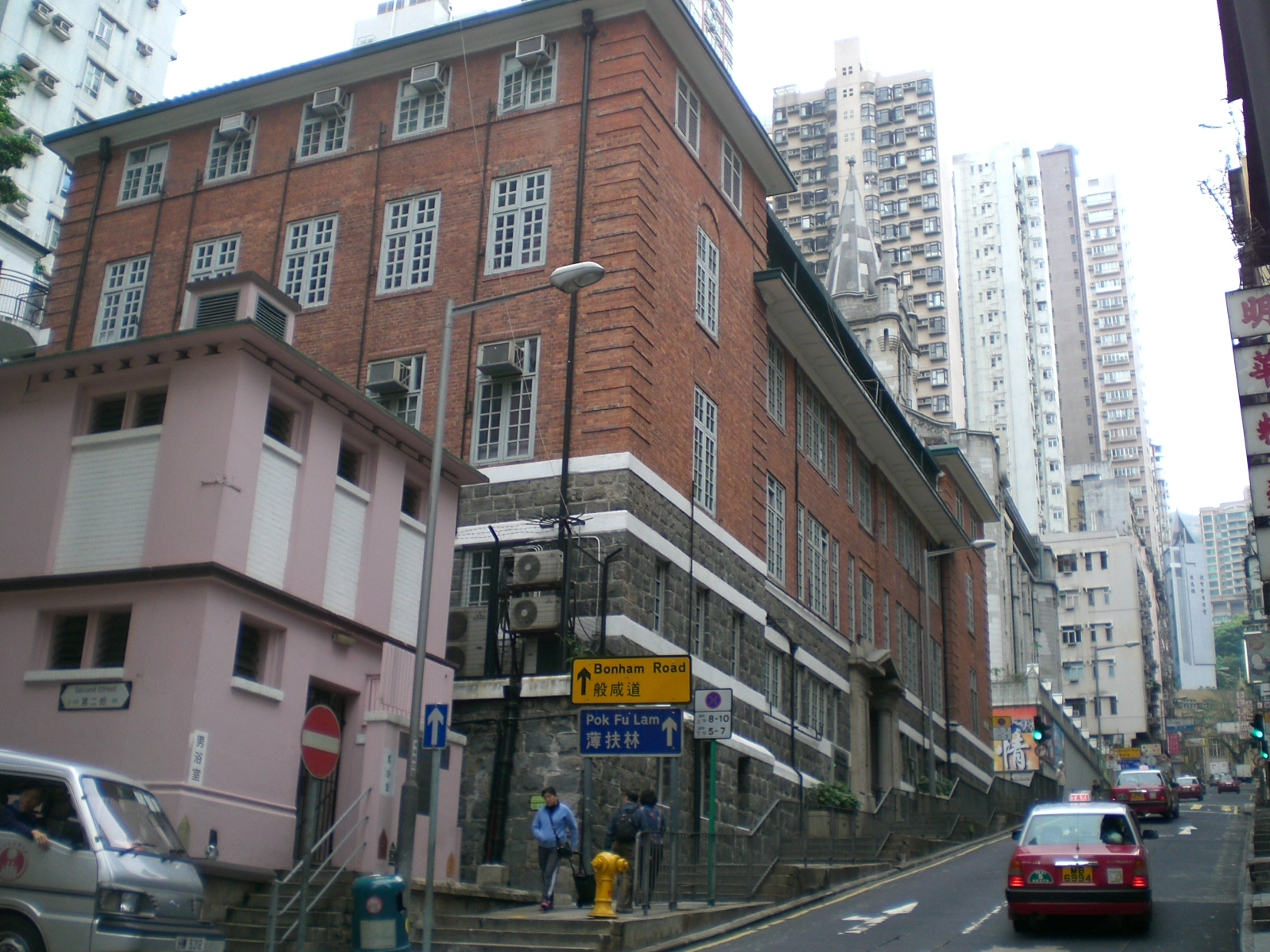 Western Street, Hong Kong, 西邊街 Photo author is me, User:Kwanyatsw